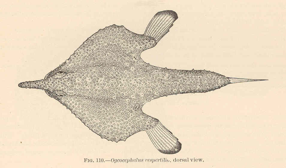 Ogcocephalus vespertilio, dorsal view Subject: Ogcocephalidae, Anglerfishes Tag: Fish